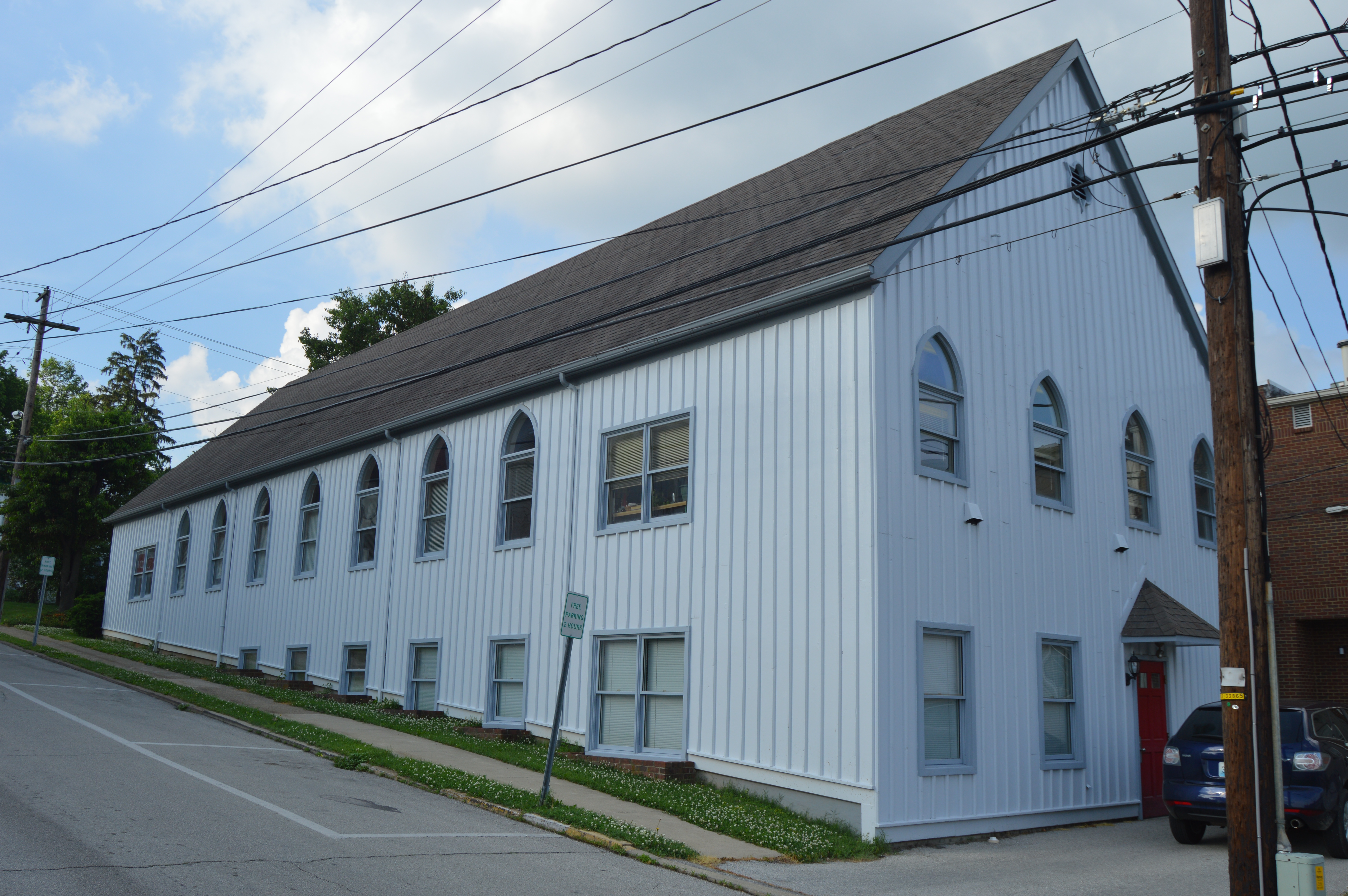 Western side and rear of the Church of the Ascension, located on High Street at Broadway in Mount Sterling, Kentucky, United States. Built in 1878, it is listed on the National Register of Historic Places, and it is part of a Register-listed historic district, the Mount Sterling Commercial District.